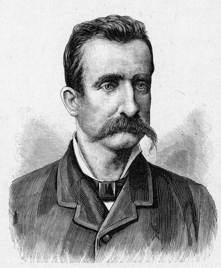 portrait of Friedrich Bohndorff